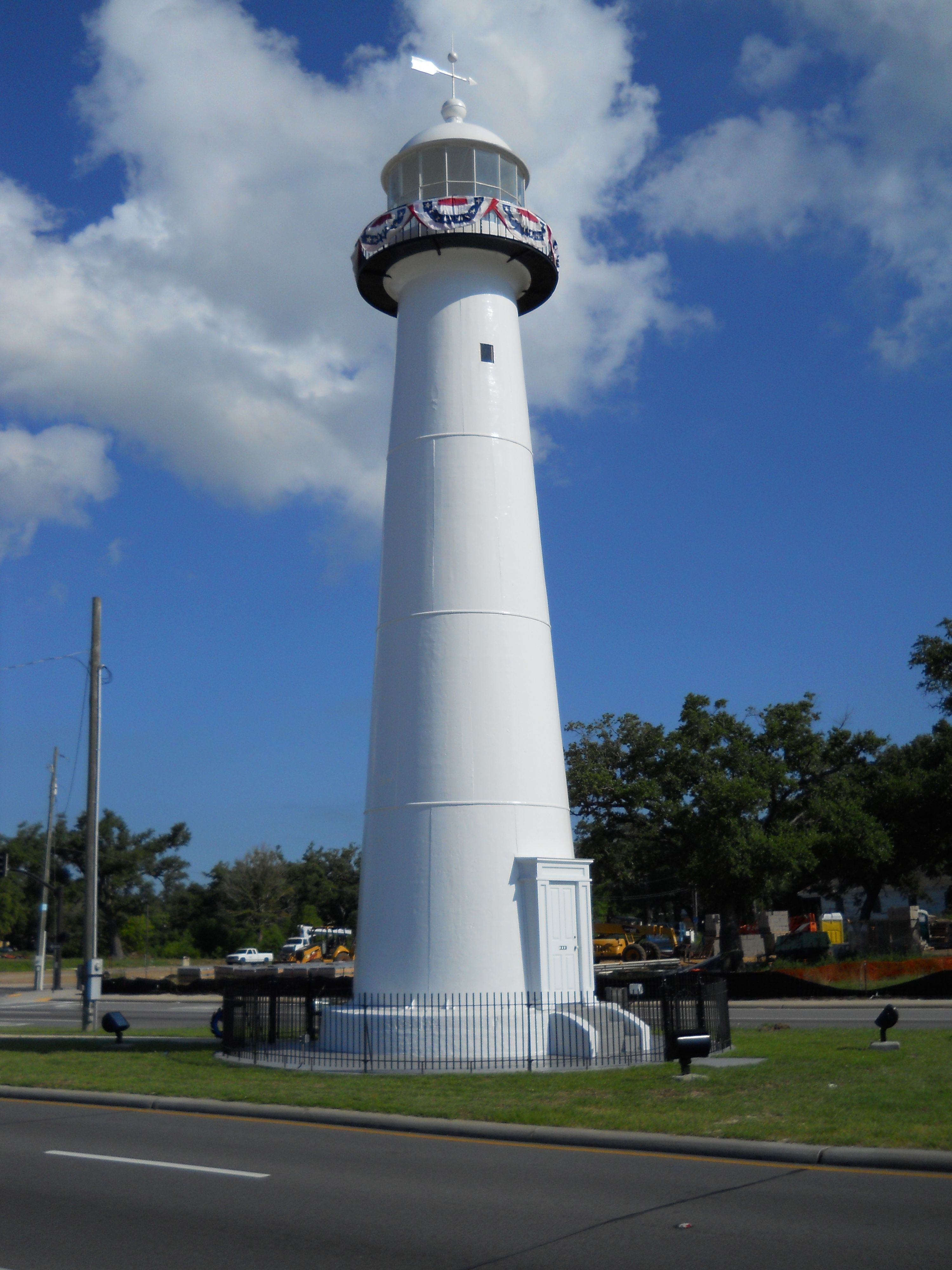 Biloxi lighthouse, June 2010, Biloxi, Mississippi, USA.